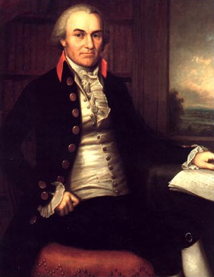 Oliver Ellsworth (1745-1807)